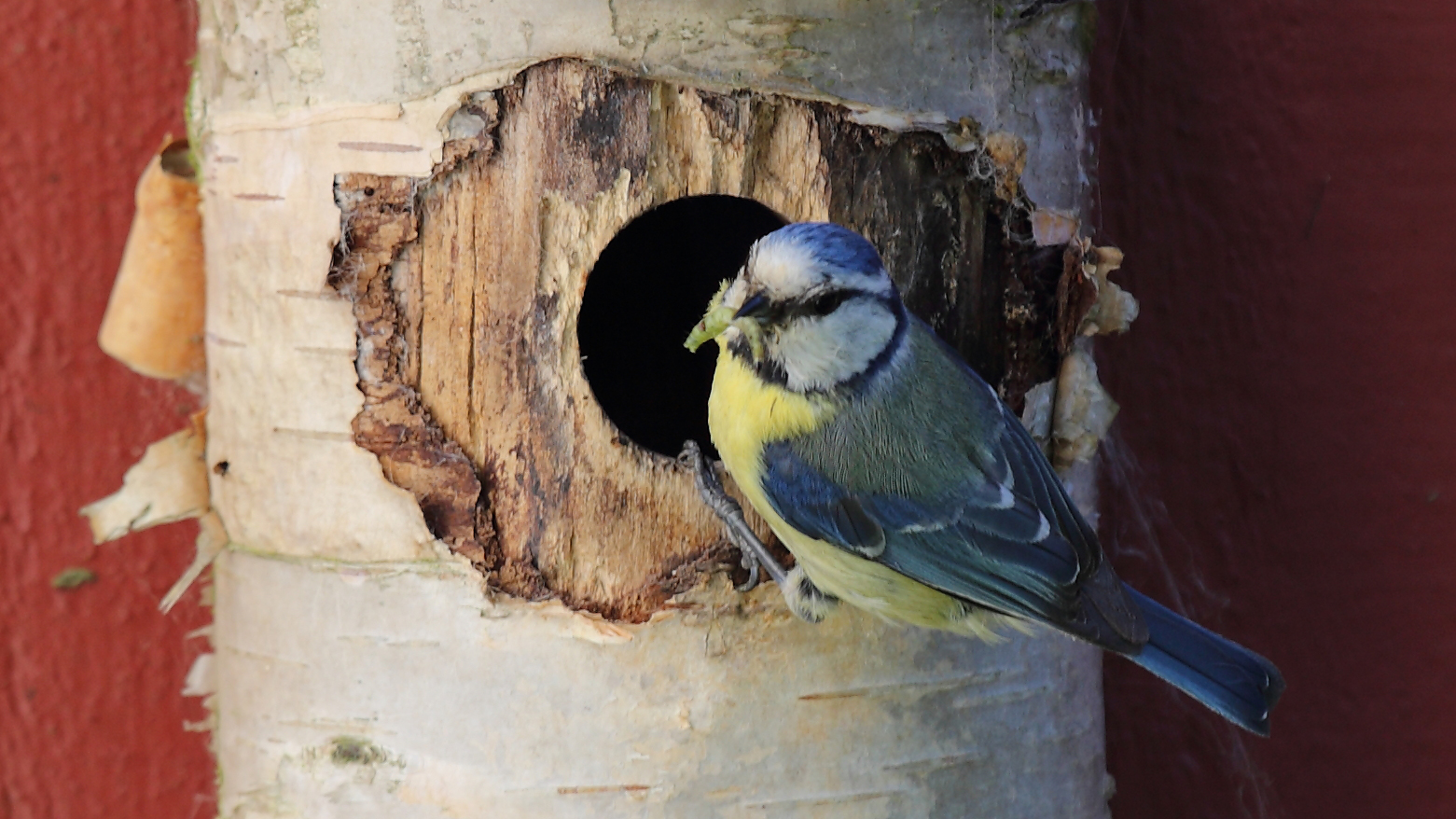 Cyanistes caeruleus at nest entrance hole.